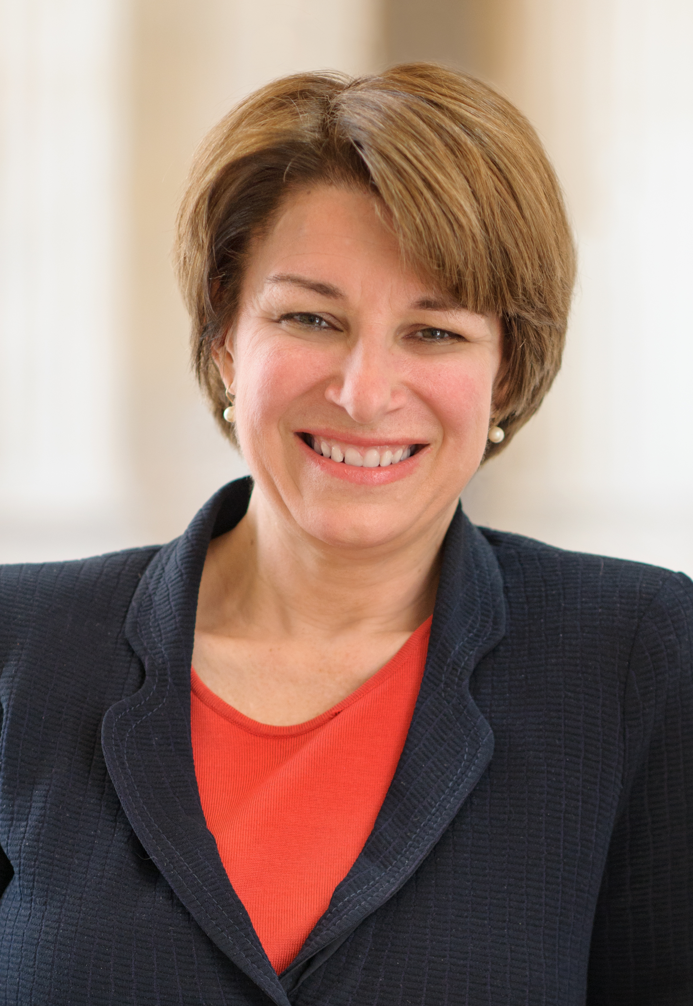 Official portrait of U.S. Senator Amy Klobuchar (D-MN).